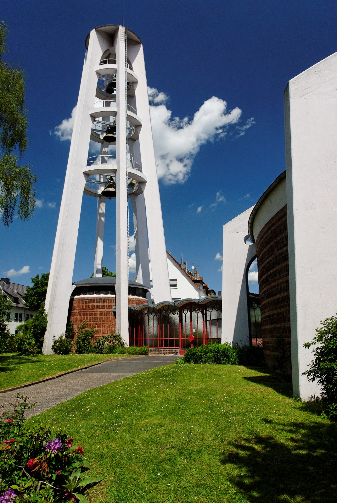 Saint Albert Church in Saarbrücken-Rodenhof, Germany